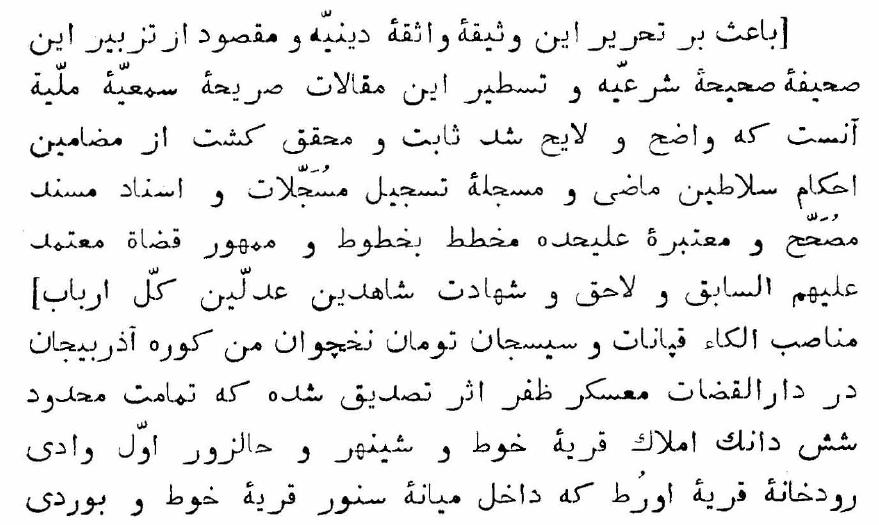 A document on Azerbaijan. Timurid period